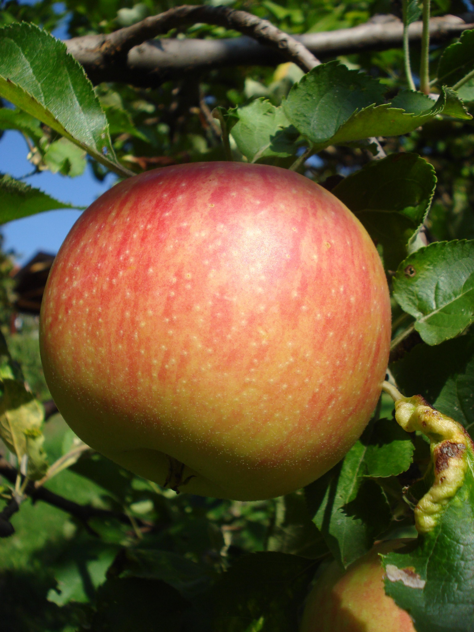 "Jonagold" apple cultivar, grown in Medjimurje County, northern Croatia